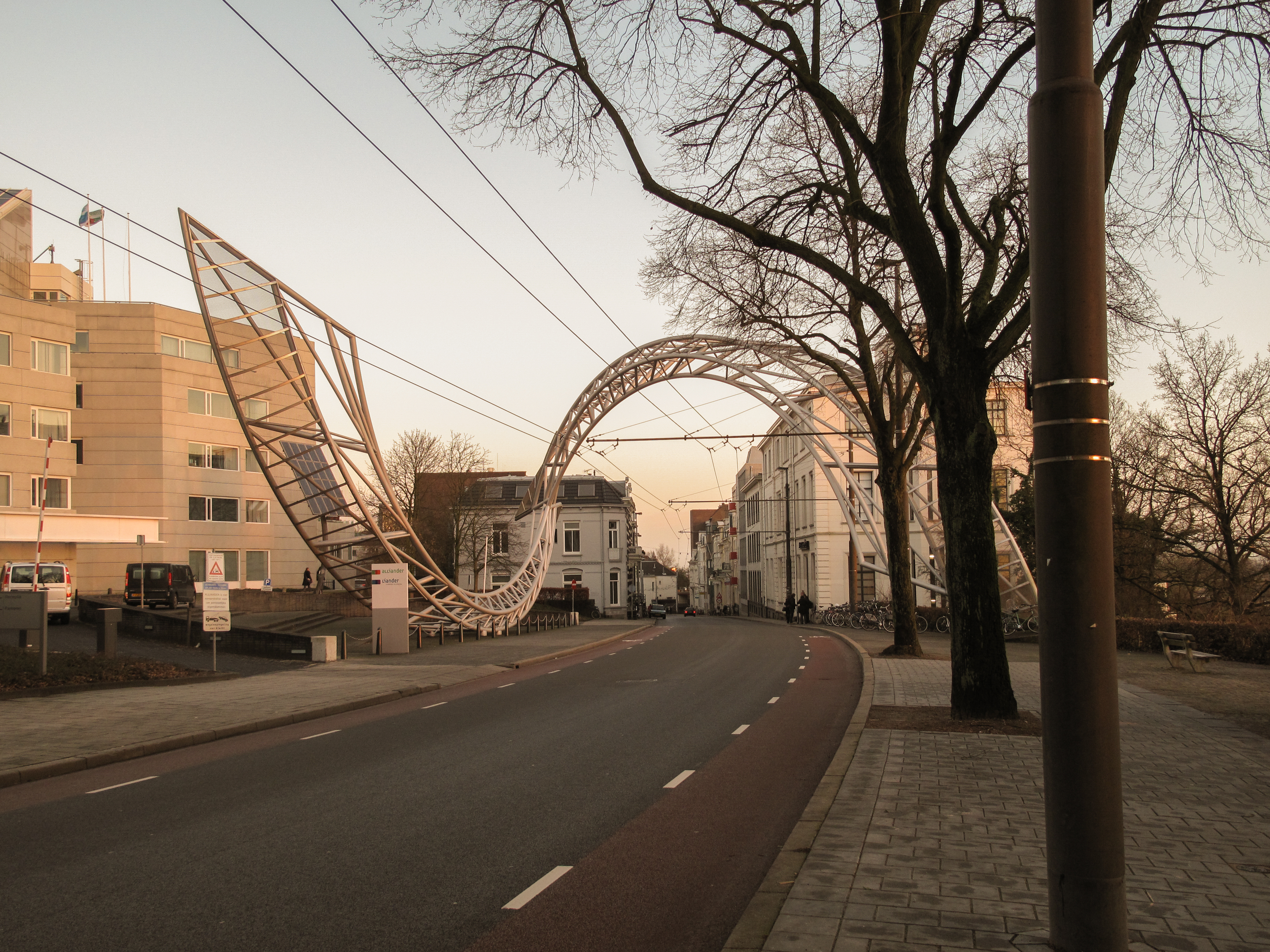 Arnhem, office building Liander